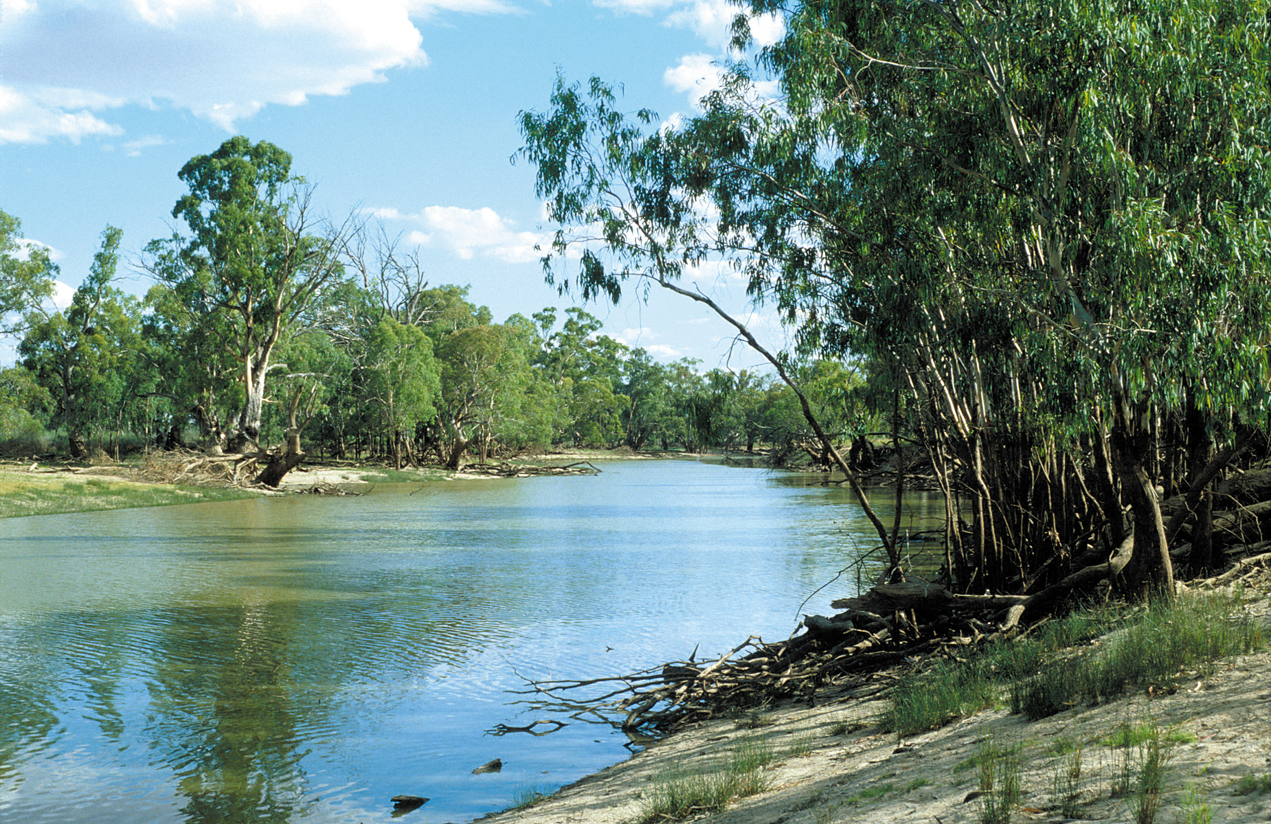 View of Punkah Creek, Chowilla. SA.